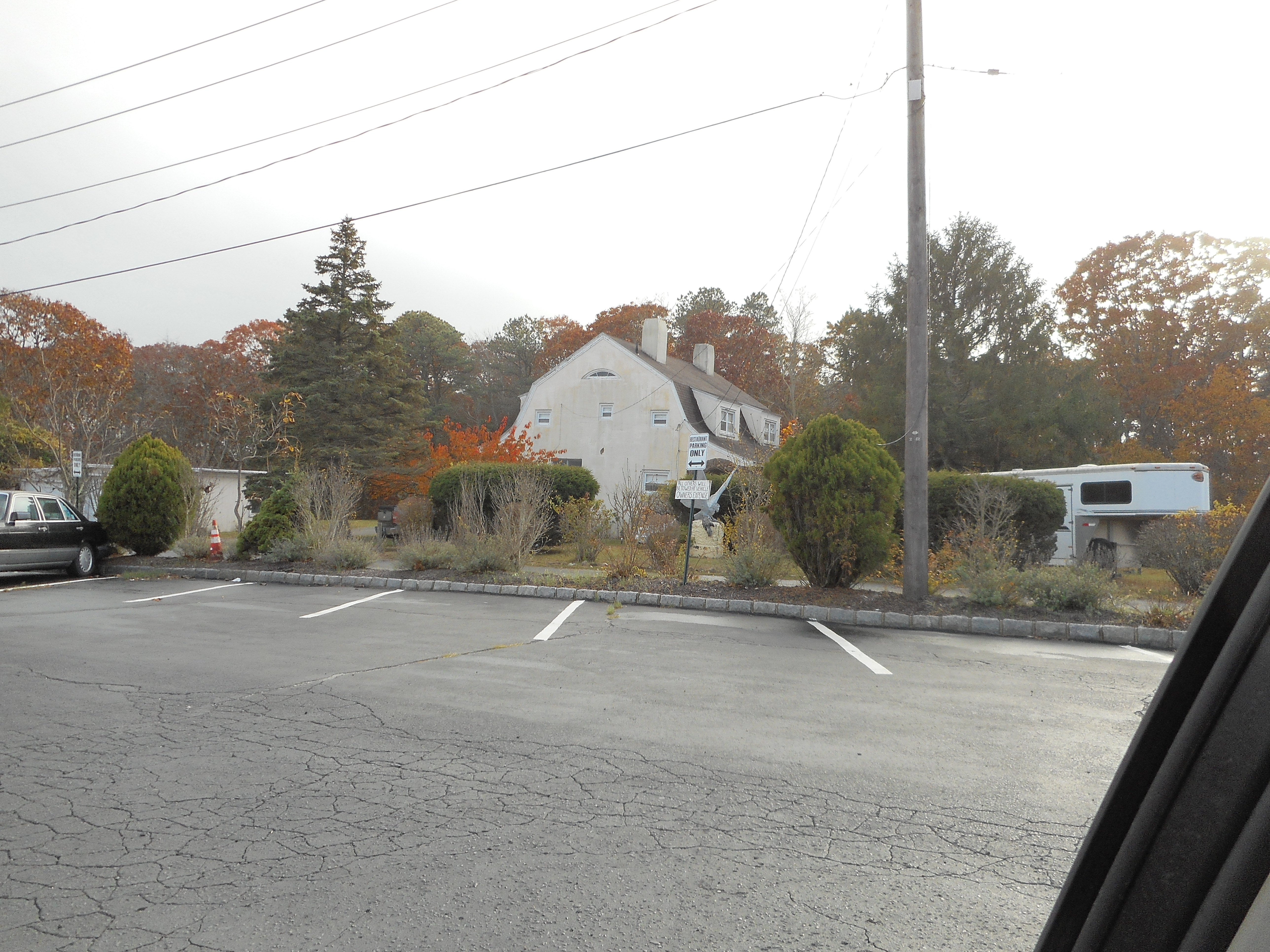 The Theophilus Brouwer House, a local historic house on the property of the Castle at Casa Basso, a roadside restaurant along Montauk Highway in Westhampton, New York. More details to come.